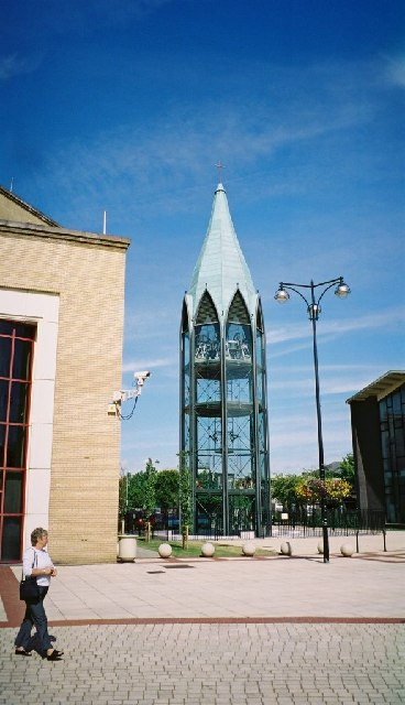 Bell tower of St Martin of Tours parish church, Basildon, Essex